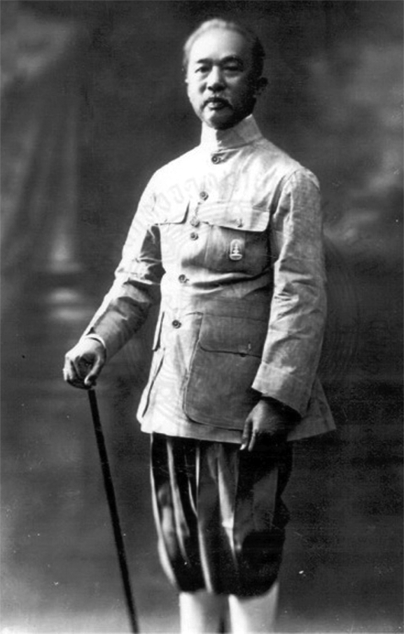 HRH Prince Ditsawarakuman, Prince Damrong Rajanubhab Photograph of Prince Damrong Rajanubhab.